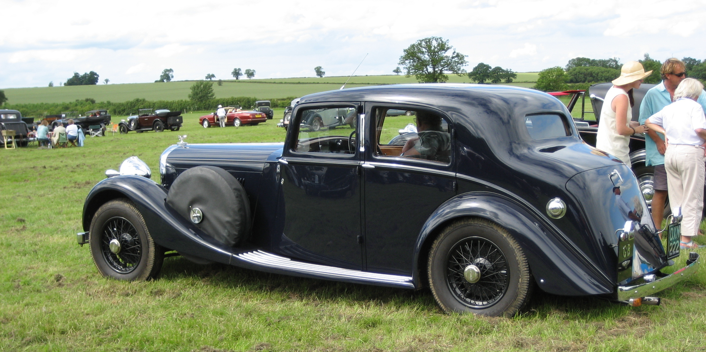 Bentley 4-1/4 Litre (#B119JY) Park Ward Sports Saloon 1937